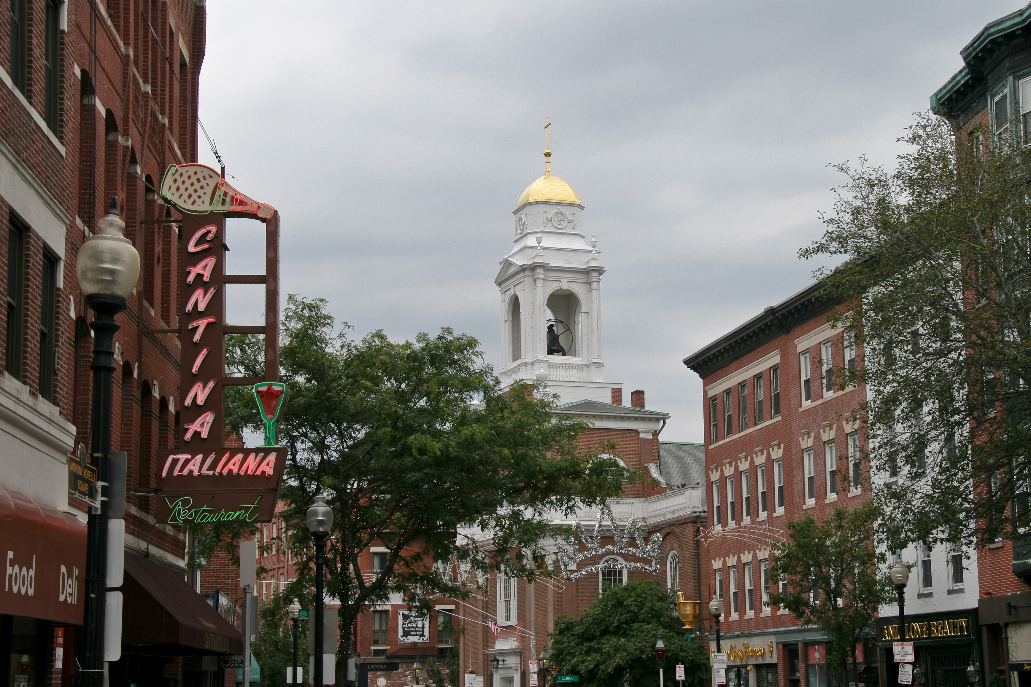 Hanover Street on a festival Sunday in the North End.